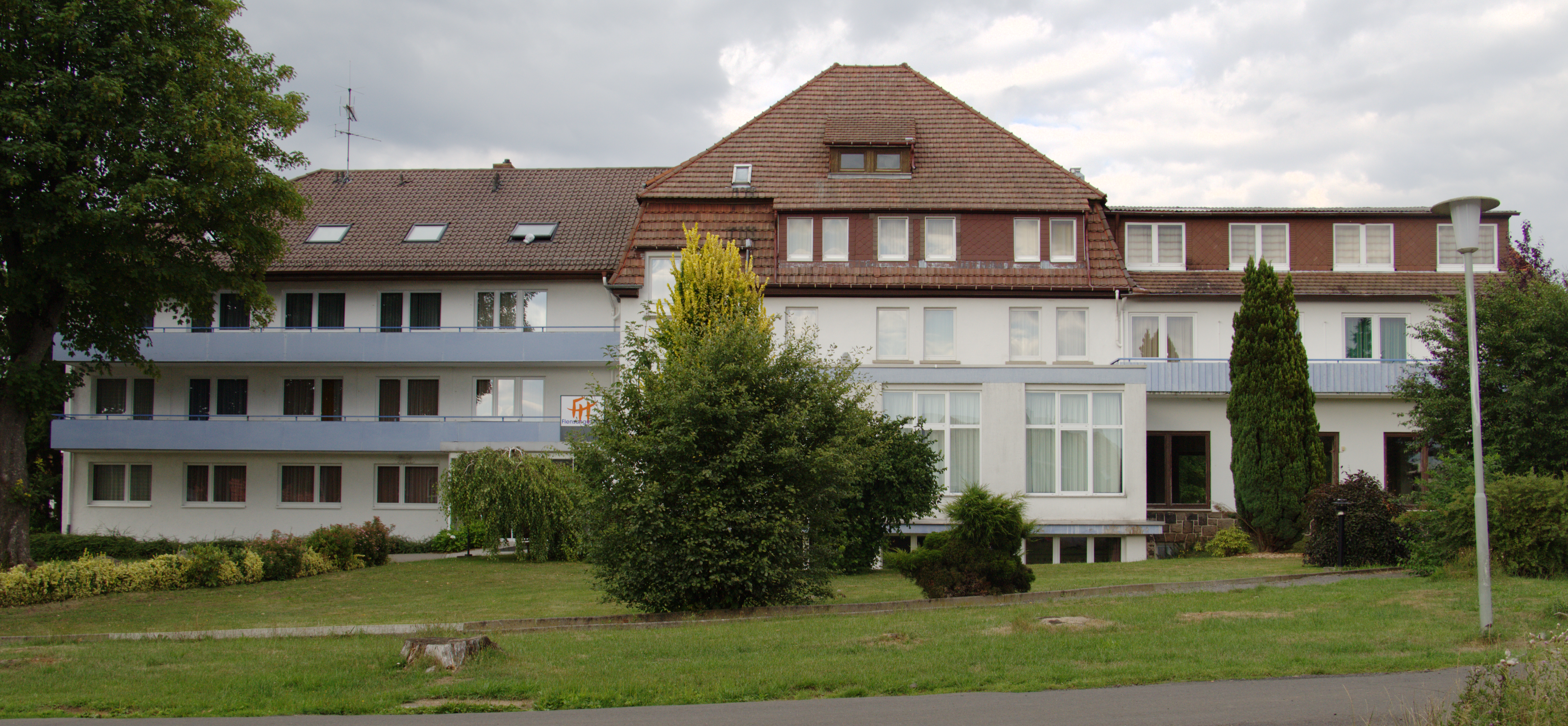 Building (conference/youth centre) in Flensungen / Muecke / Hesse / Germany